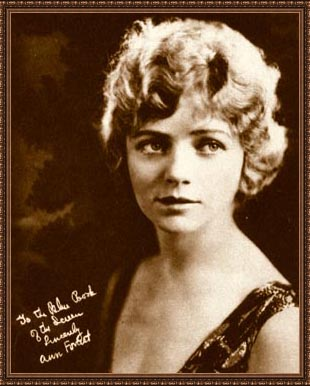 Publicity photo of Ann Forrest from The Blue Book of the Screen by Ruth Wing, editor